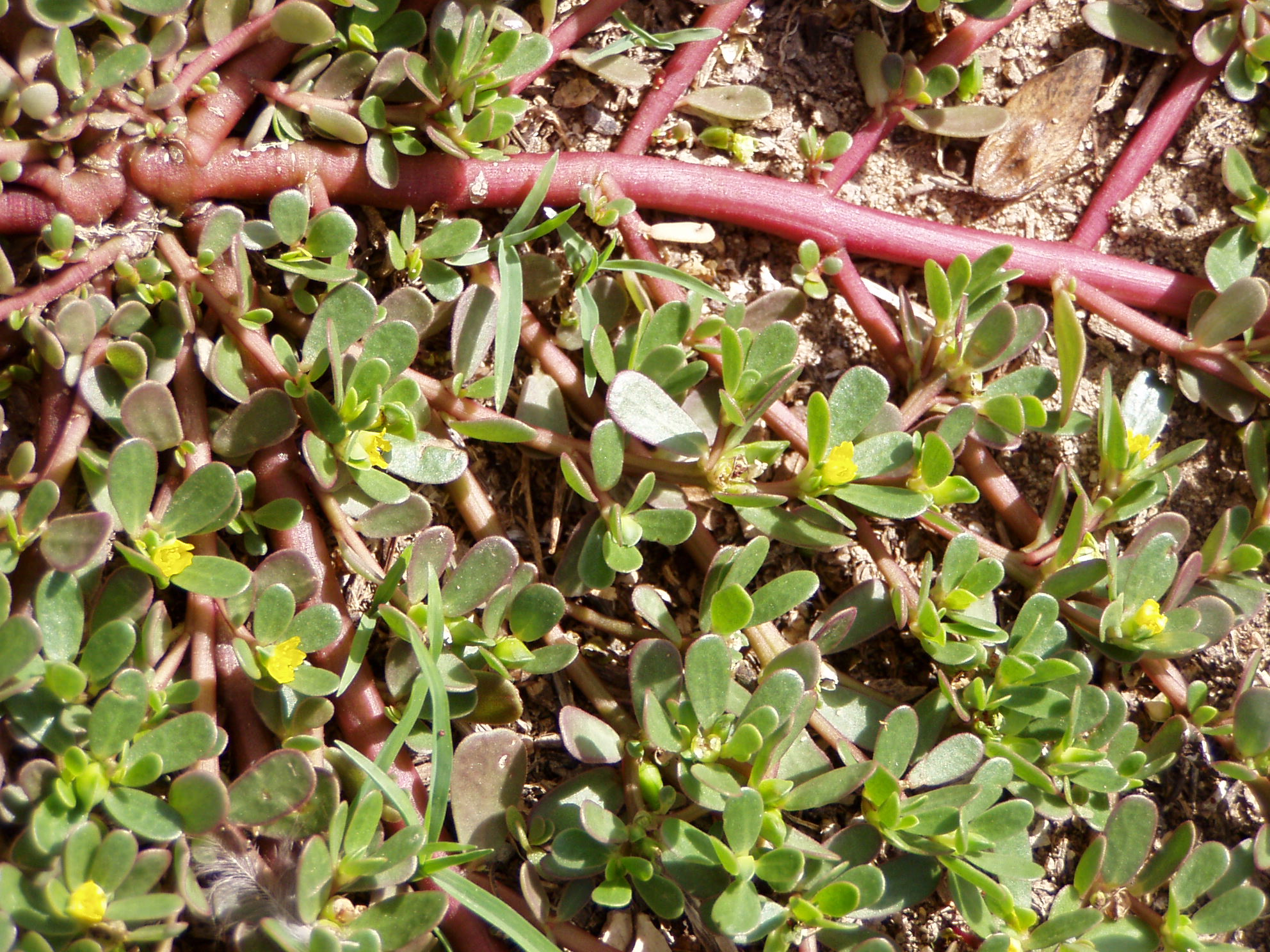 Purslane